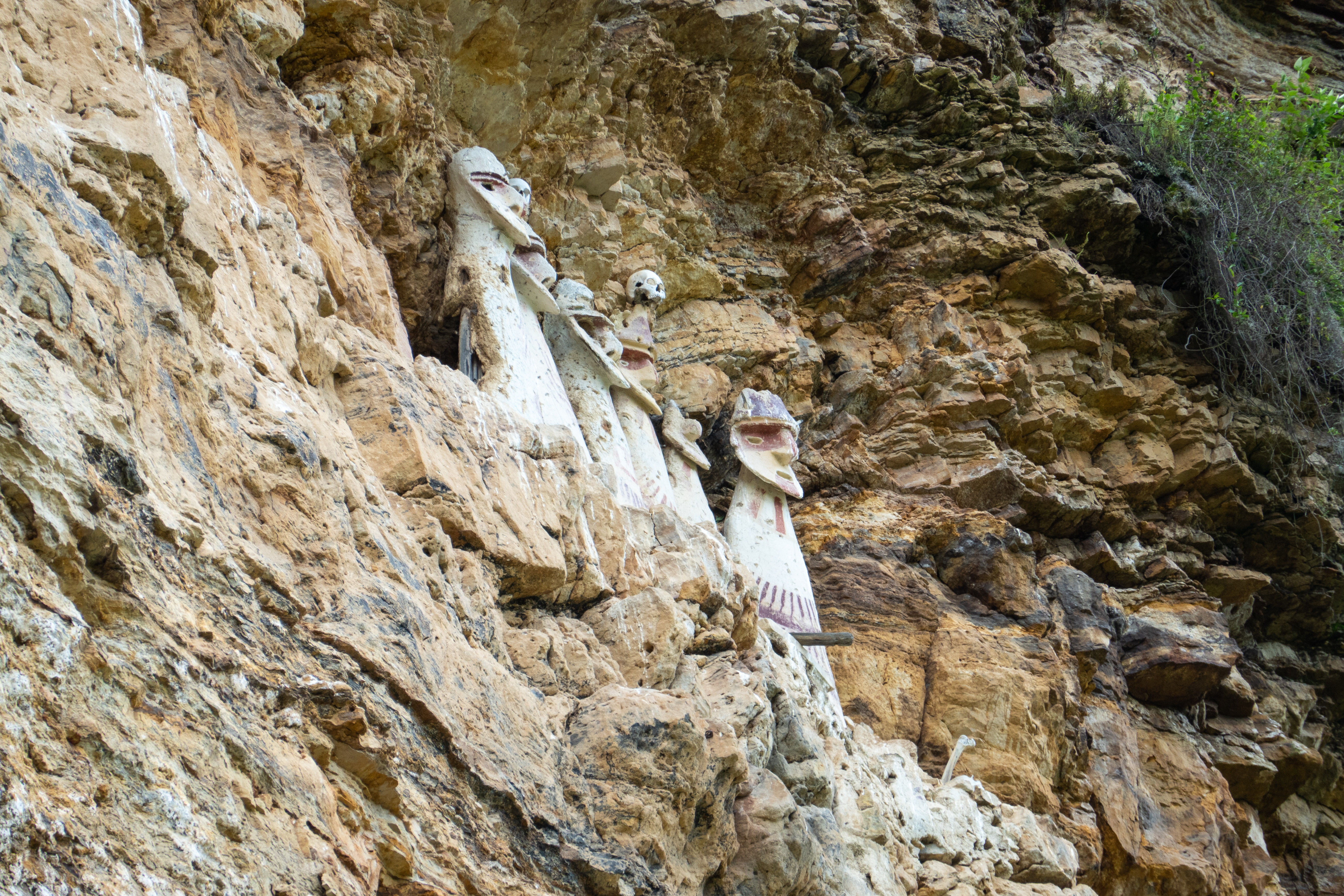 Sarcófagos de Karajía